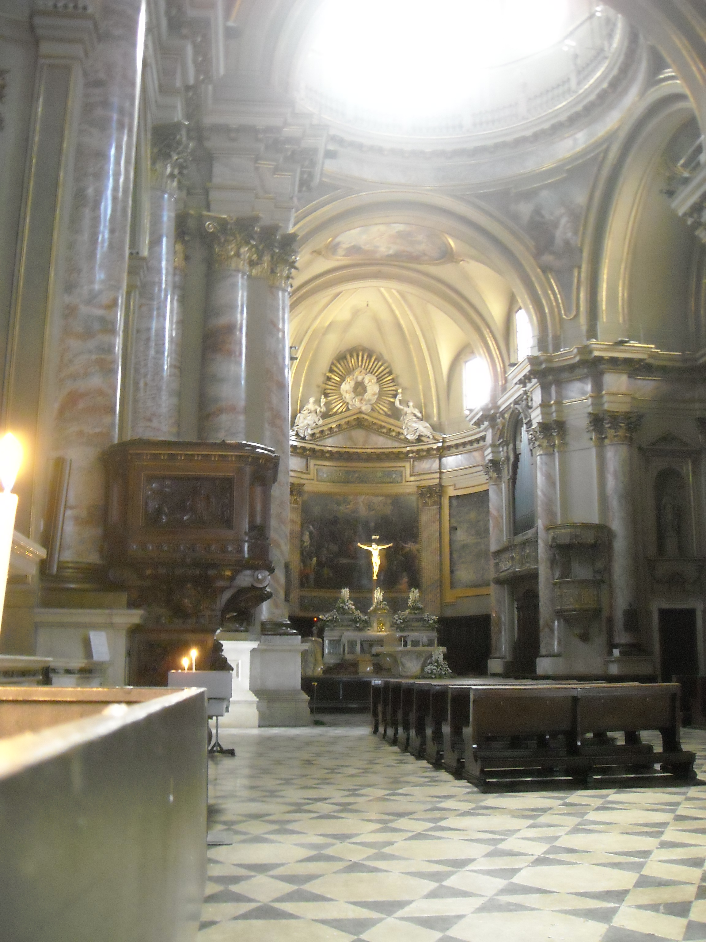 Interior of the basilica of Sant'Alessandro in Colonna, Bergamo, Italy